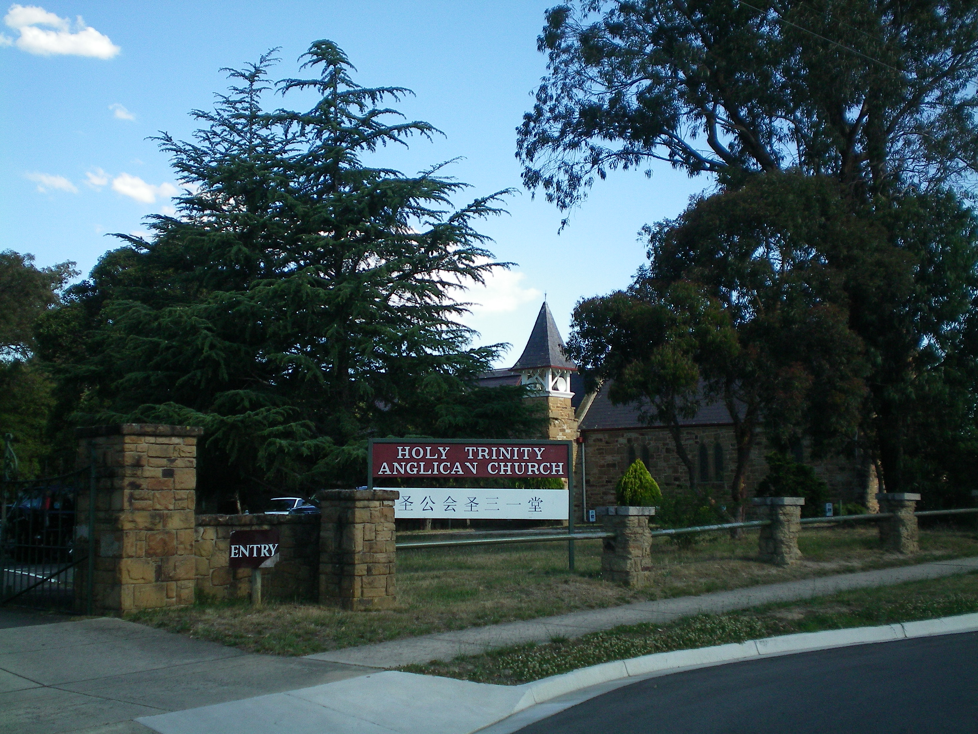 The entrance to Holy Trinity Anglican Church at Doncaster, Victoria.